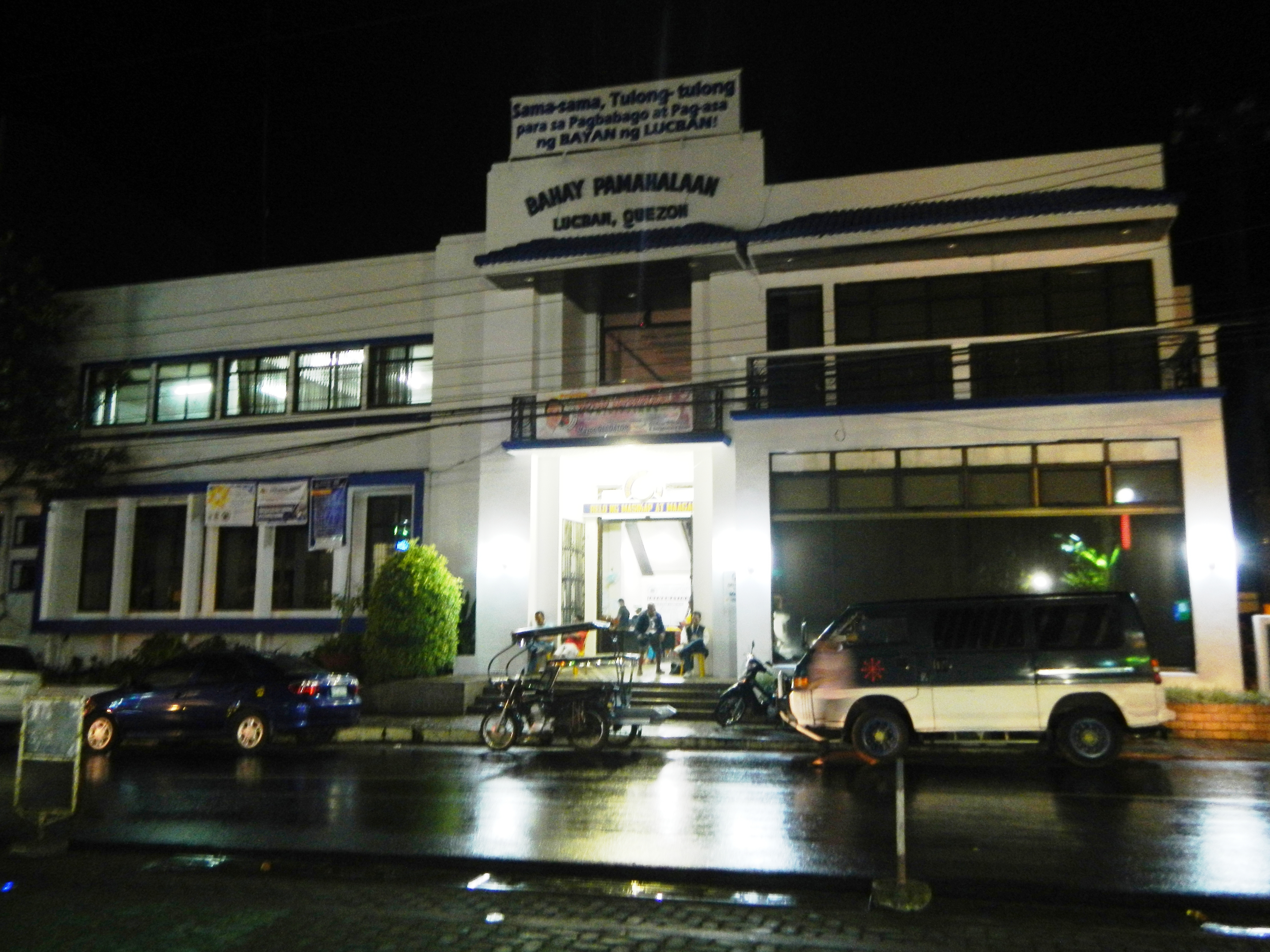 UploadWizard photos -- (General description, 3-dimension angle by angle photography of this town, church & landmarks) -- 1593 Saint Louis of Toulouse Parish Church of Lucban, Quezon[1] [2] - belongs to the Roman Catholic Diocese of Lucena [3] [4] [5] -- Lucban, Quezon[6] (a second-class municipality in the province of Quezon,[7] Philippines, 2010 census, it has a population of 46,698 people, located at the foot of Mt. Banahaw[8] famous for its annual Pahiyas Festival, which is held every 15th of May in honour of St Isidore the Laborer the Farmer).[9]).